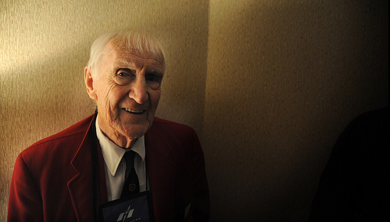 David Kyle at the Worldcon Science Fiction convention.